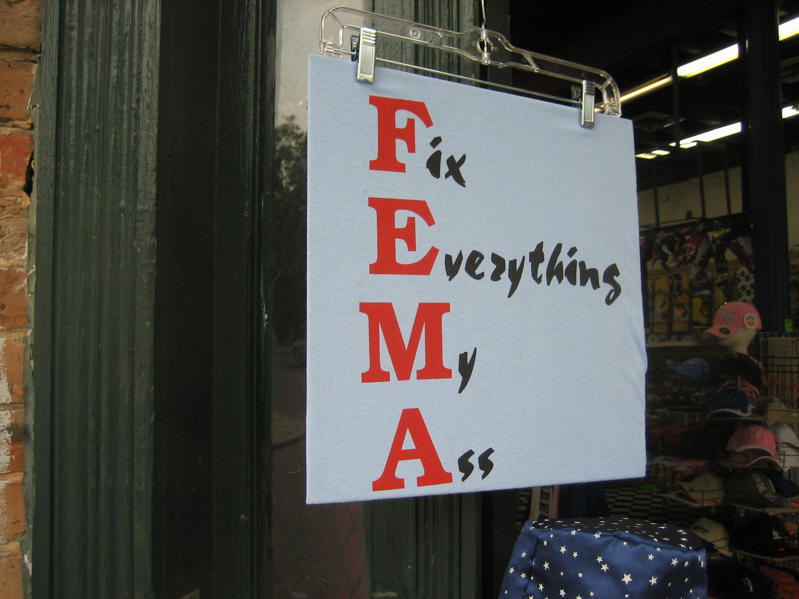 New Orleans after Hurricane Katrina: Sign in French Quarter shop suggests uncomplimentary alternative acronym for FEMA